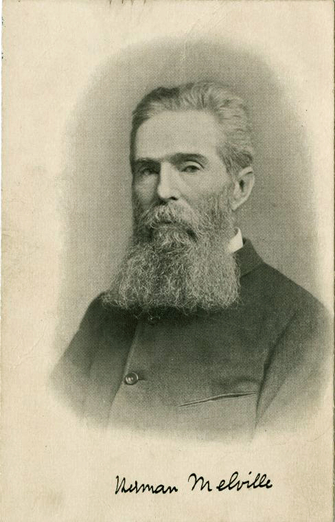 Signed photographic portrait of Herman Melville in later life.